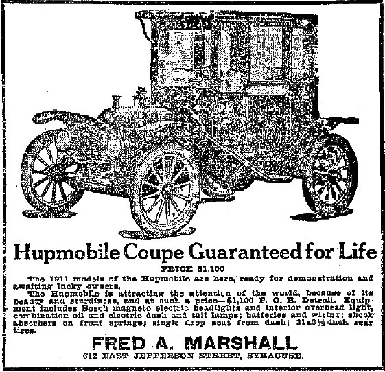 1911 Hupmobile Advertisement